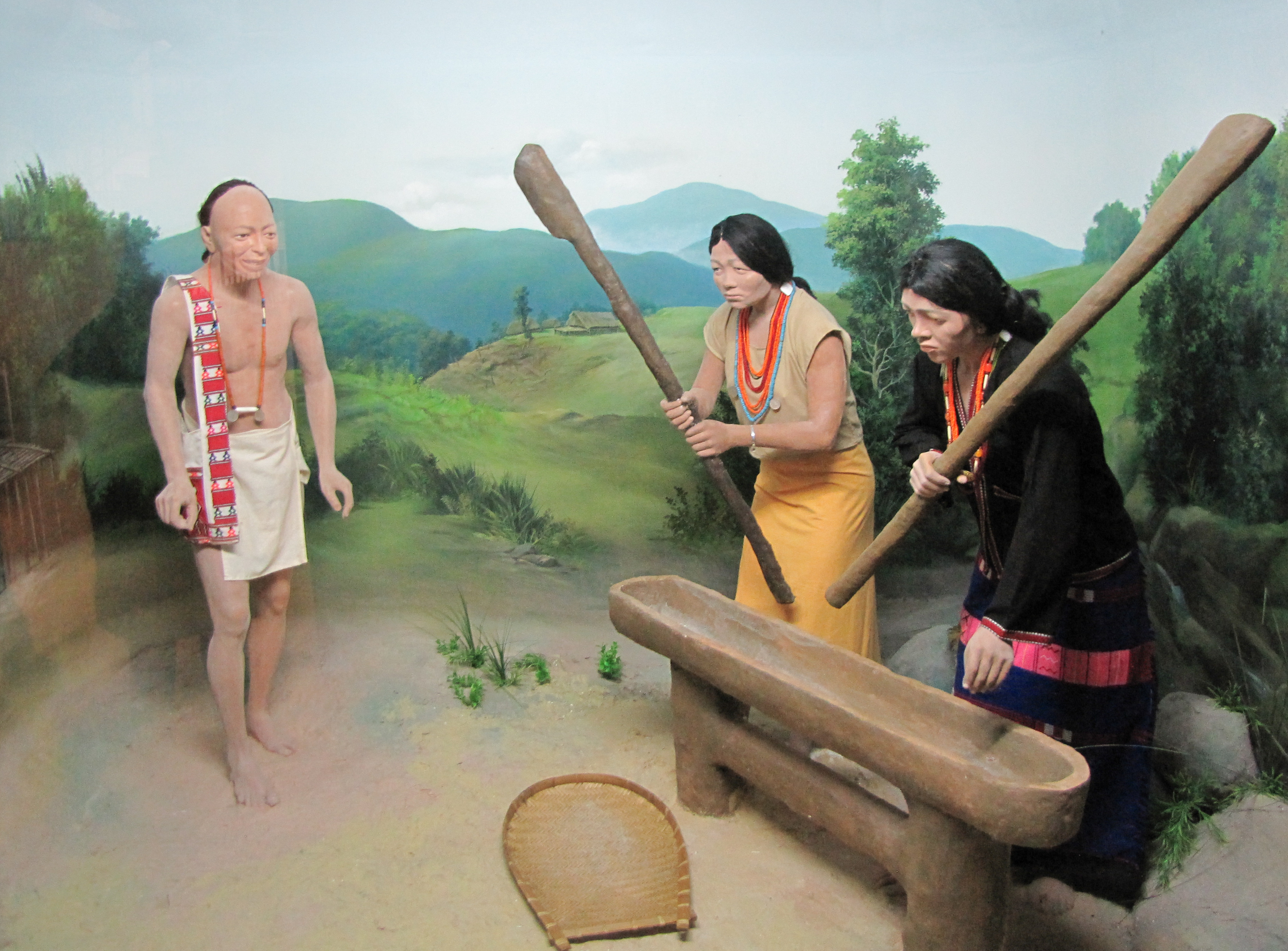 Diorama of Nocte people at Jawaharlal Nehru Museum, Itanagar, Arunachal Pradesh, India.